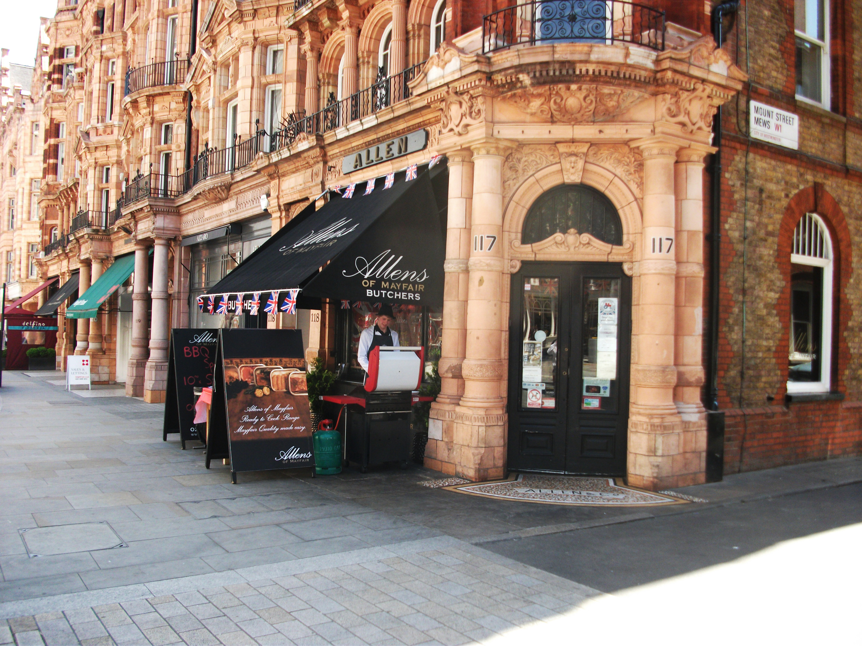 A view of Allens of Mayfair, the butcher's shop, in May 2012